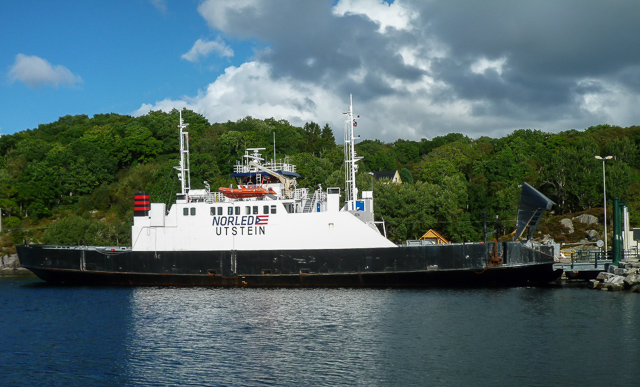 Car ferry Utstein at Buavåg ferry ferminal